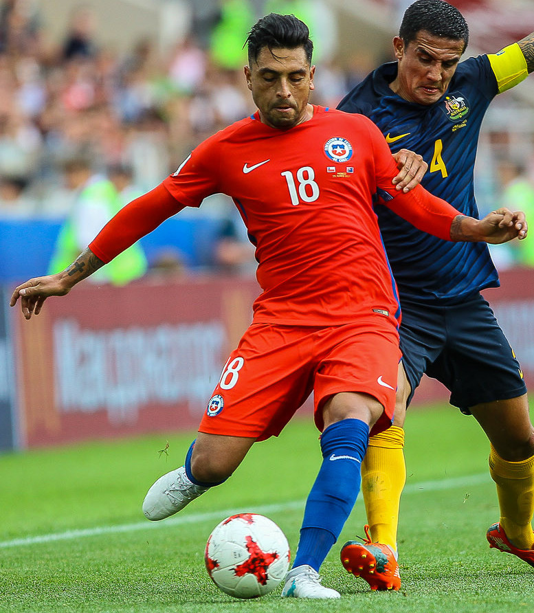 Chile VS. Australia 1 - 1, 25 June 2017